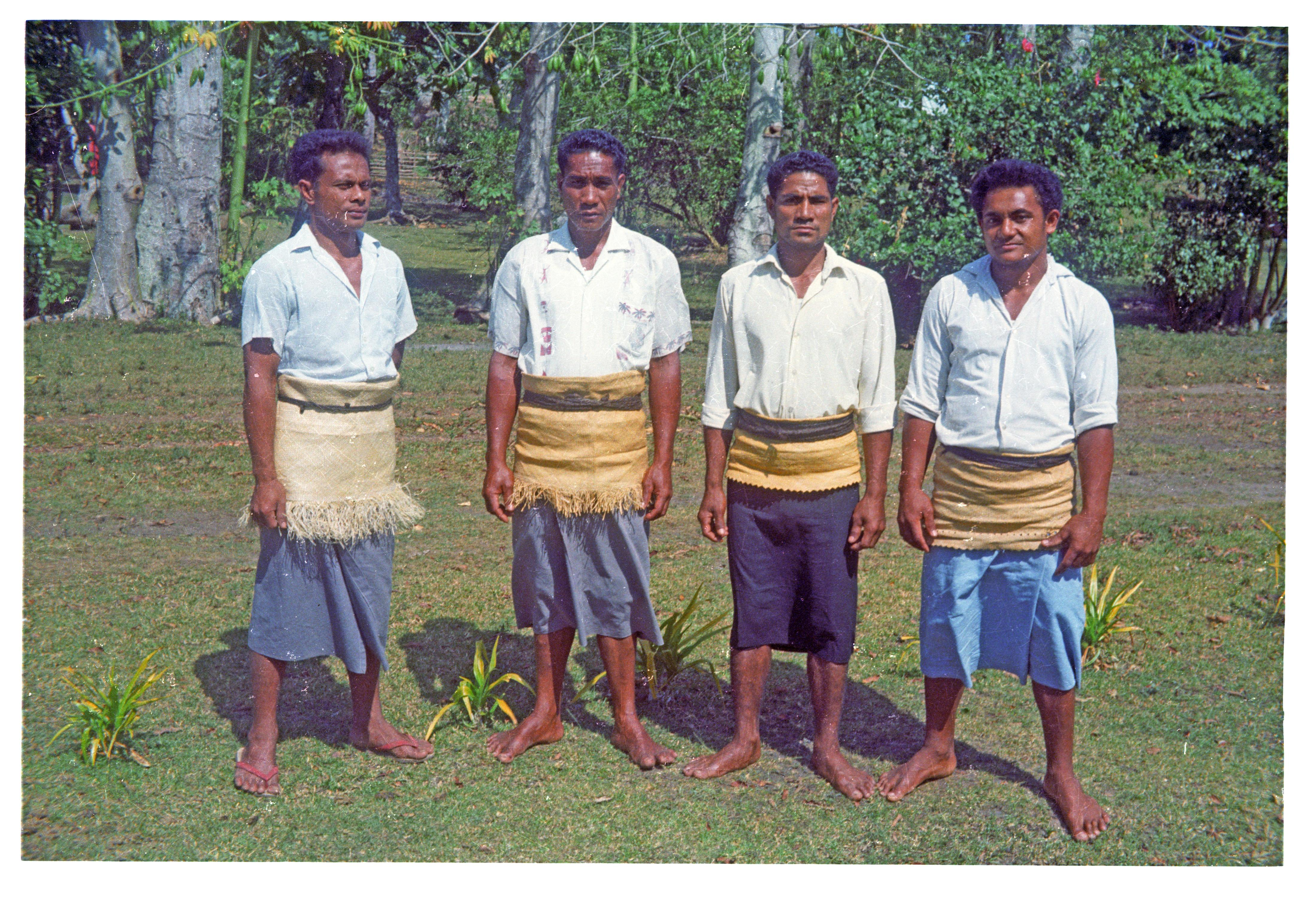 Paula Afe Havea, Lautaimi (Tēvita), Siale, Vakapuna. Hihifo, 1969.